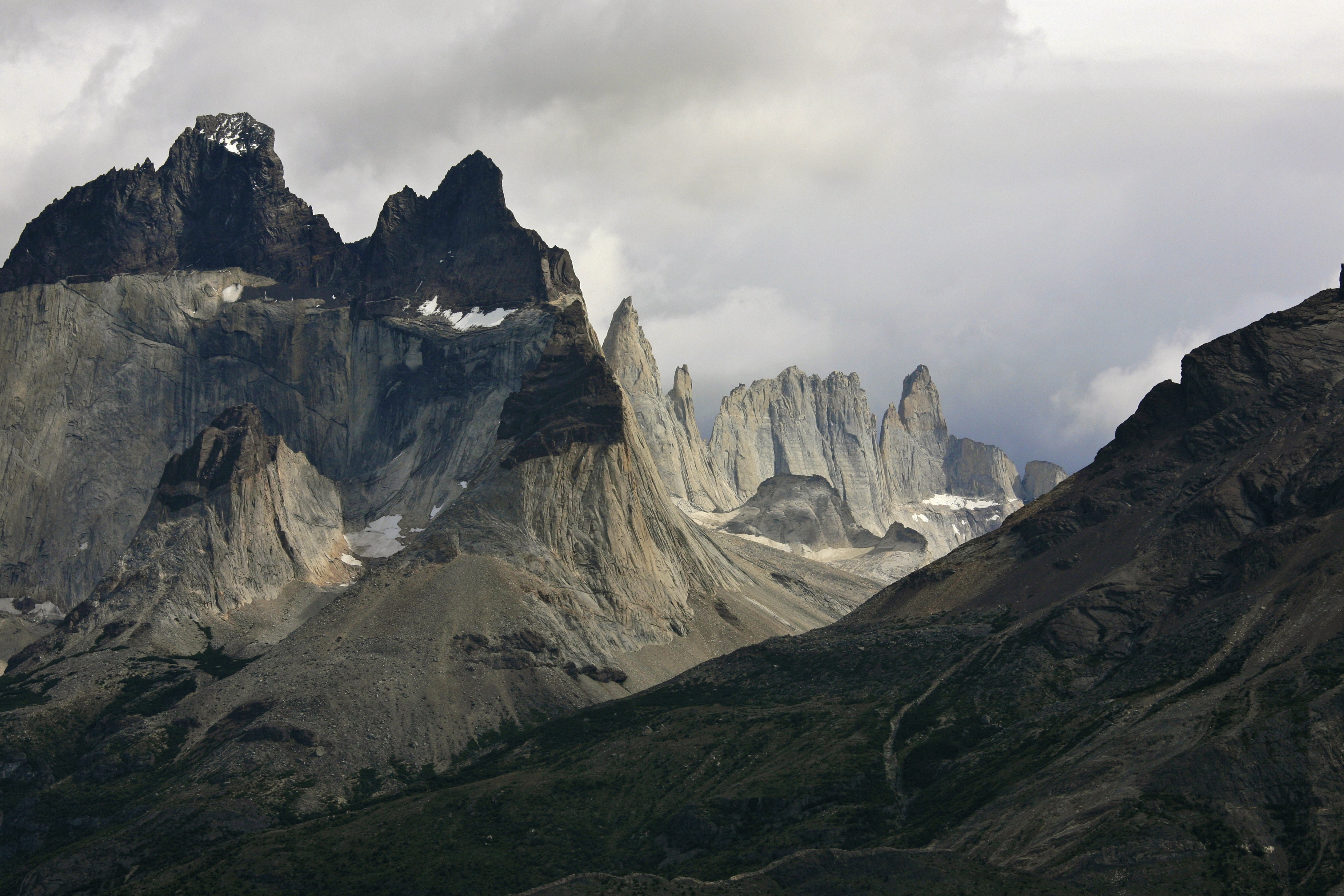 Los Cuernos del Paine, Torres del Paine National Park, in southern Chilean Patagonia.